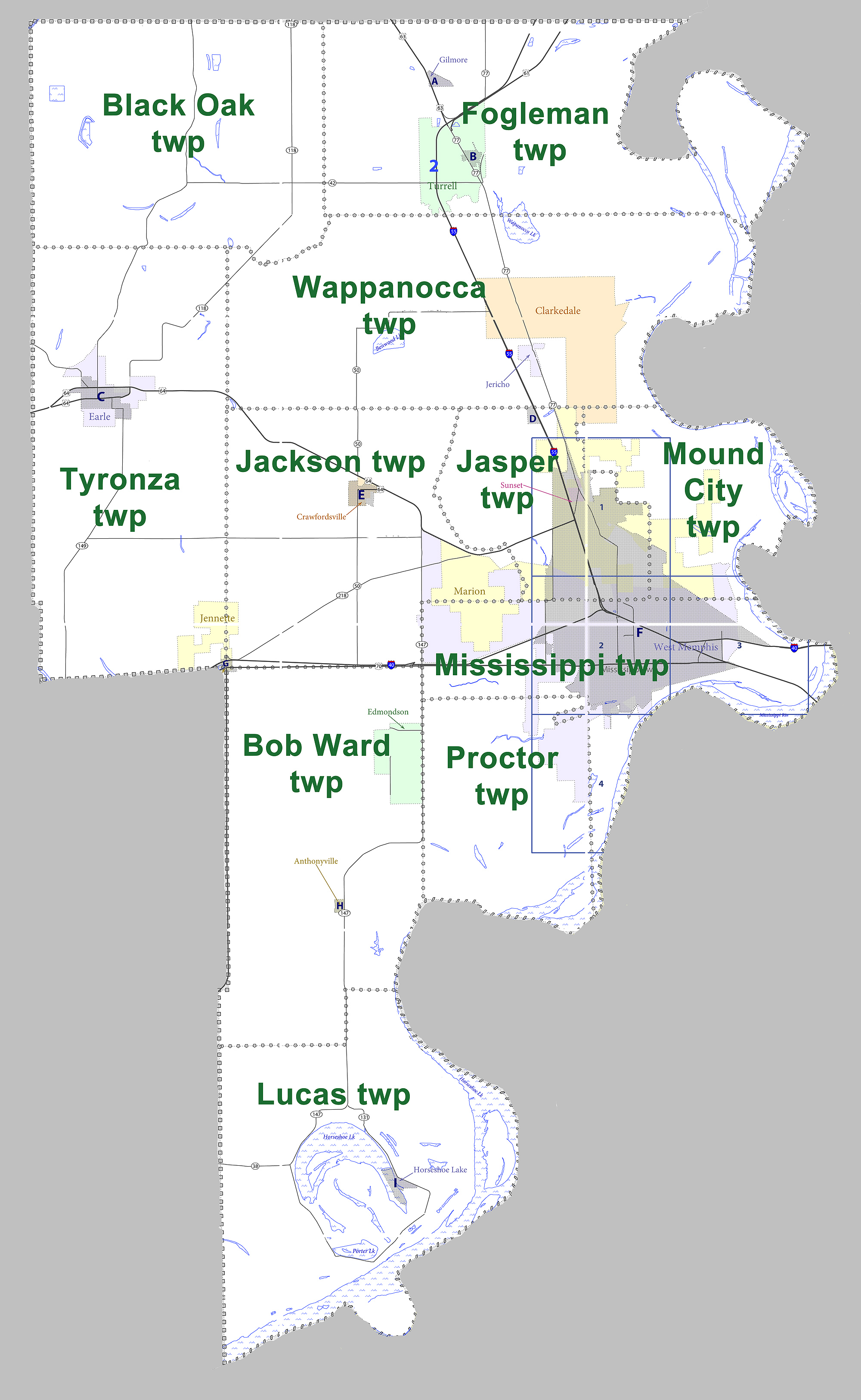 Large map showing townships in Crittenden County, Arkansas. Modified from US census map (for 2010 census) for Crittenden County, Arkansas